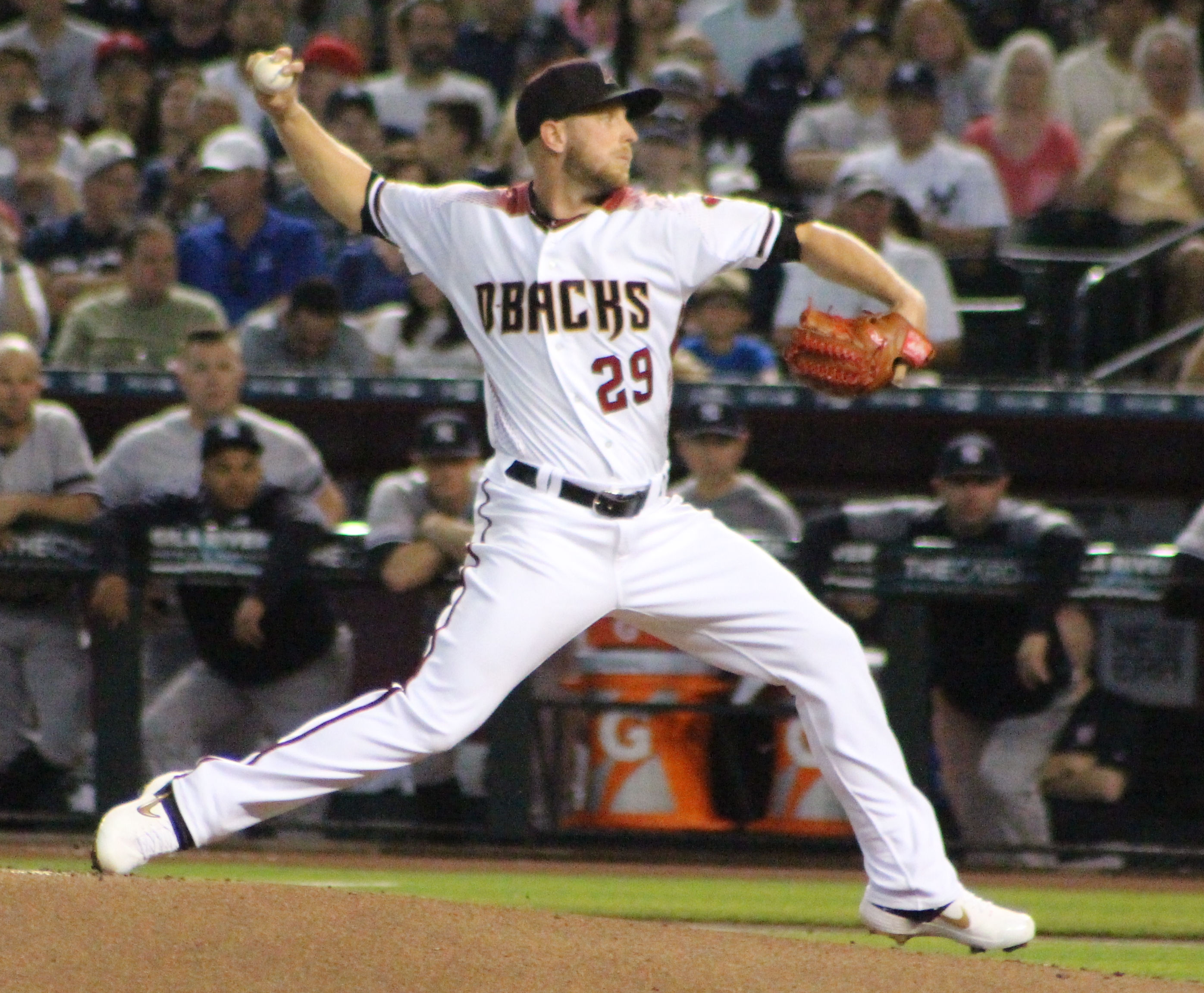 Merrill Kelly delivers a pitch for the Arizona Diamondbacks at Yankee Stadium in May 2019